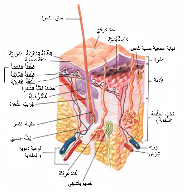 Anatomy of the human skin with Arabic language labels. Translated by: Tarawneh